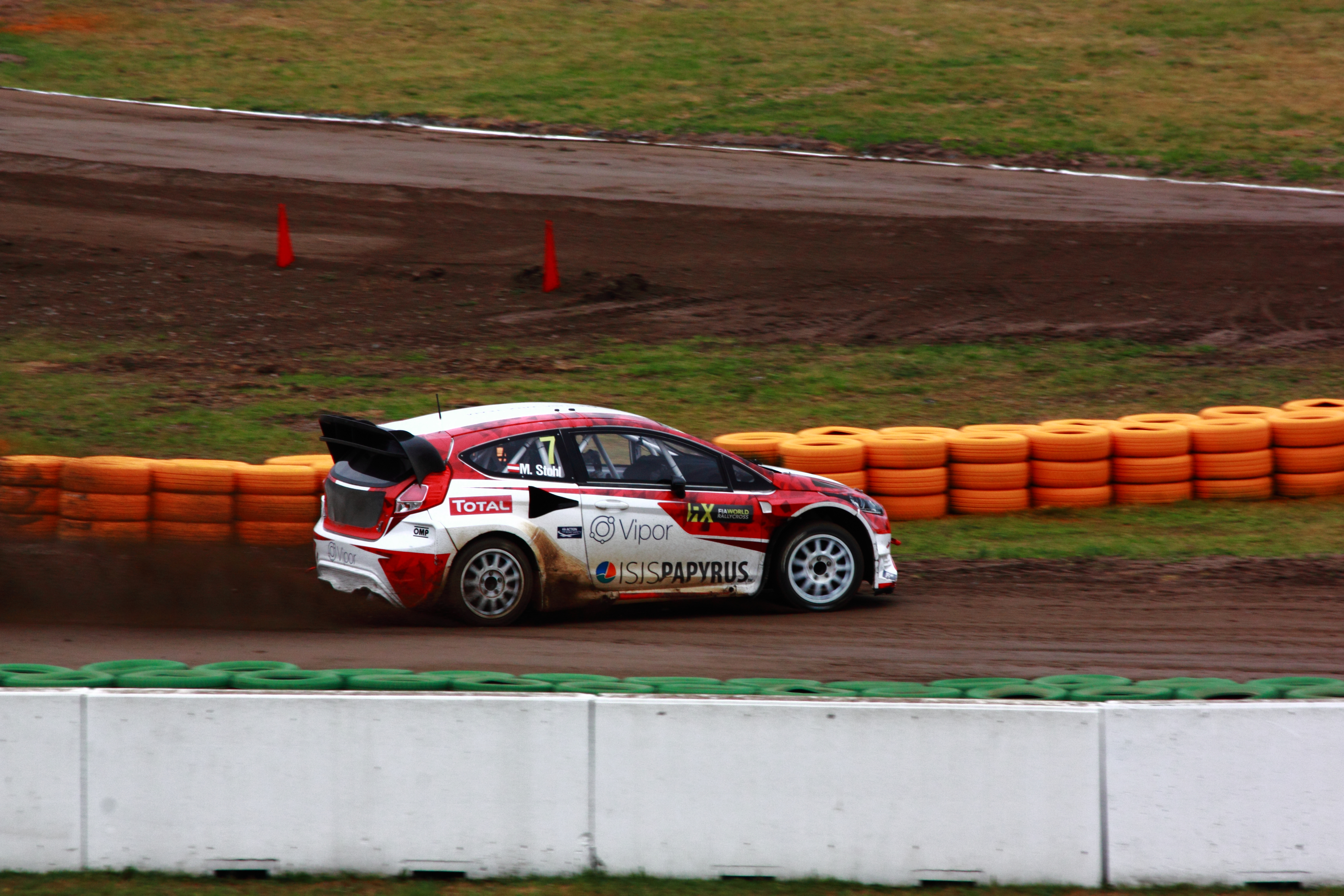 Manfred Stohl, Ford Fiesta VII, World RX Team Austria